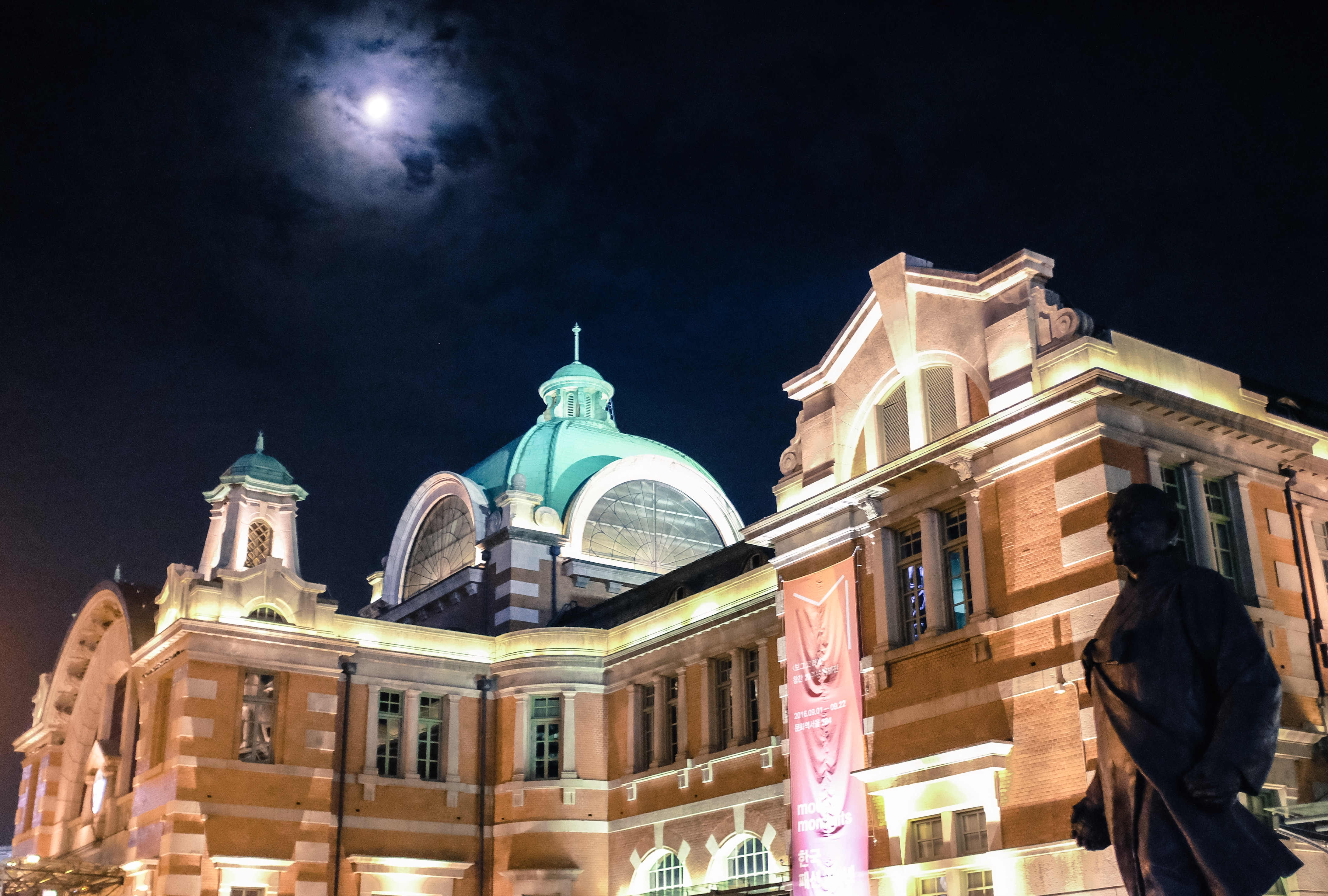 Former Seoul station